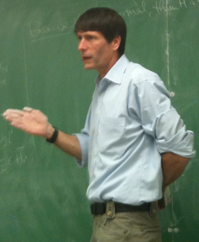 Thomas Callister Hales giving a lecture. Photo taken by myself.